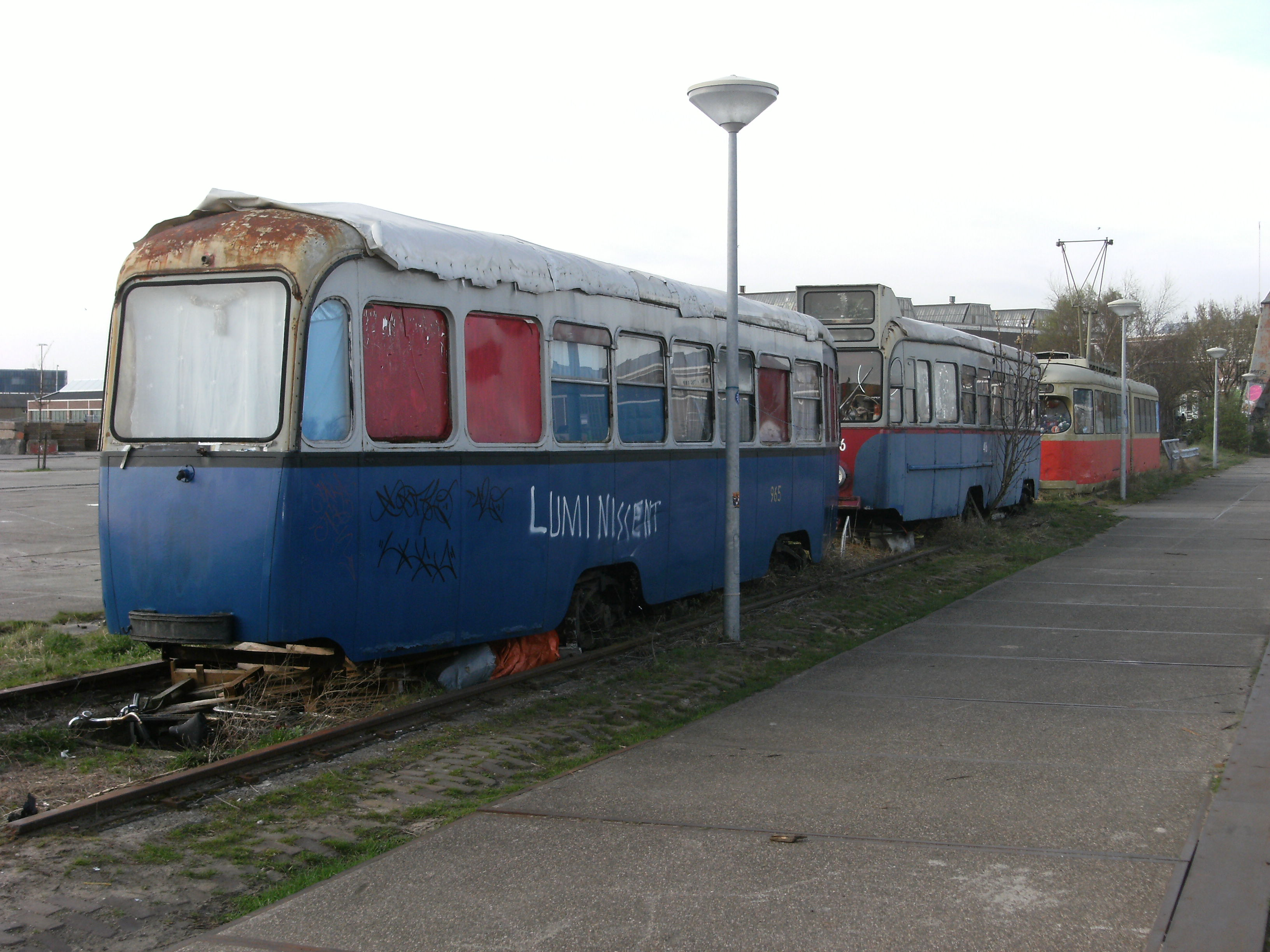 Abandoned trams NDSM wharf Amsterdam.